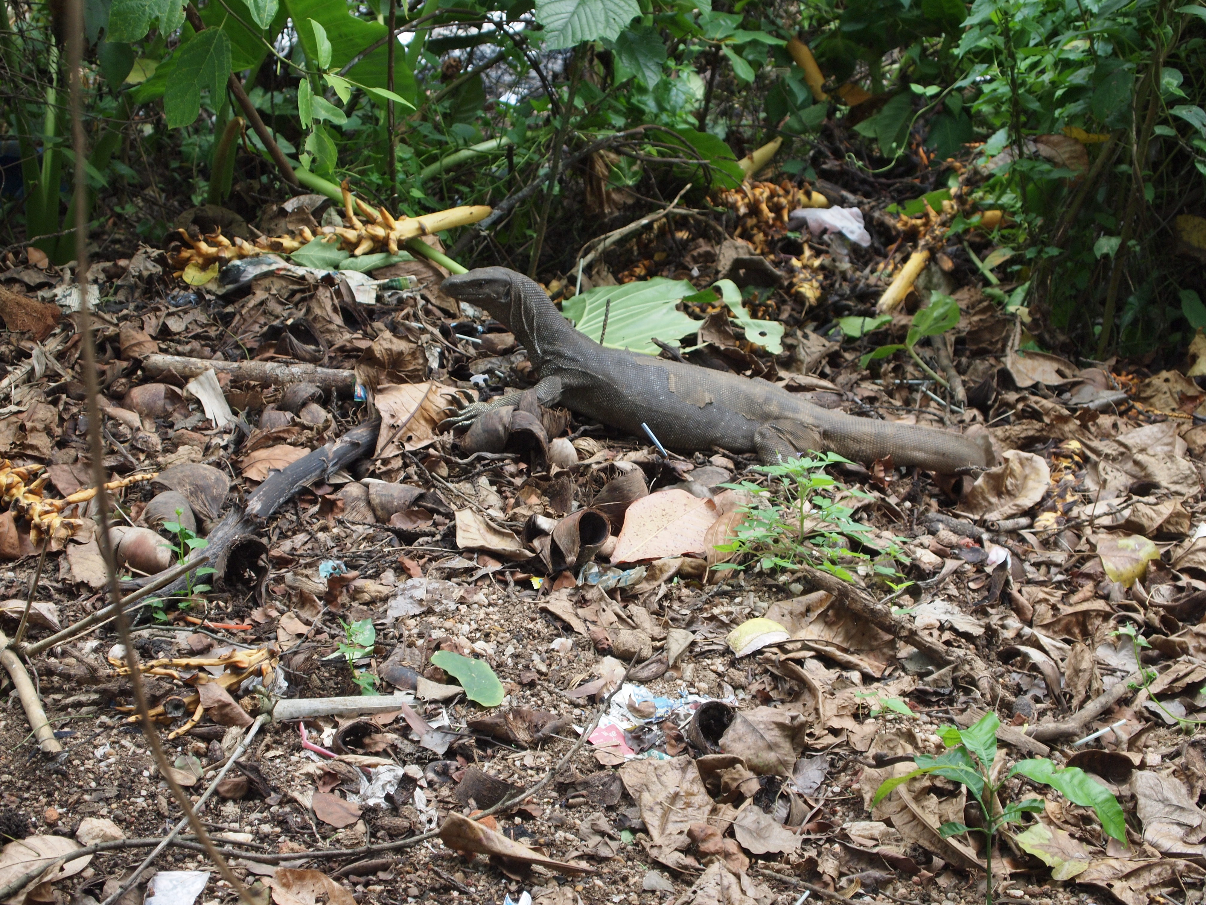 ஊர்வன வகையில் அடங்கும் ஒரு உயிரினம்